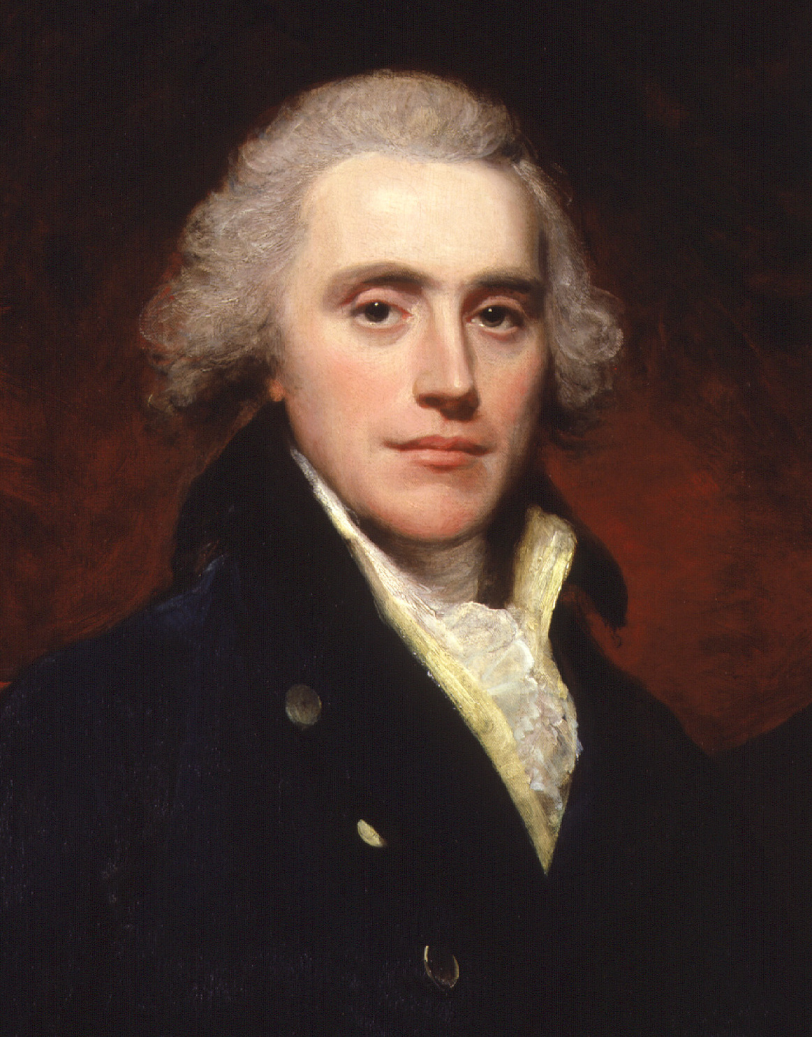 Portrait of Henry Addington (1757–1844)